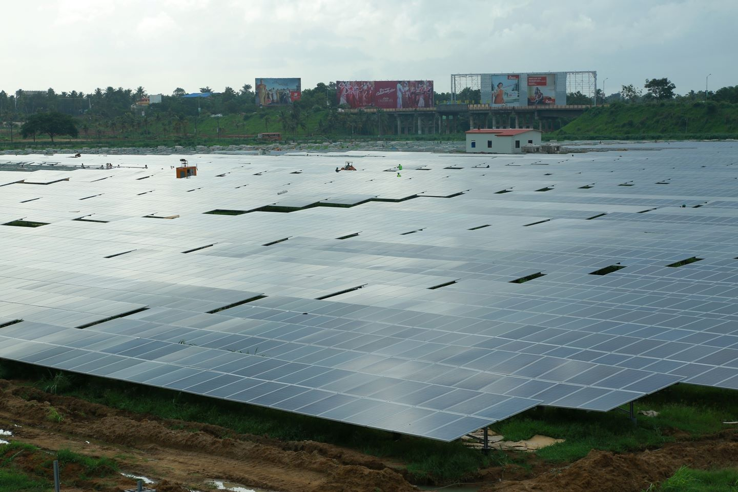 Solar cells near cargo terminal